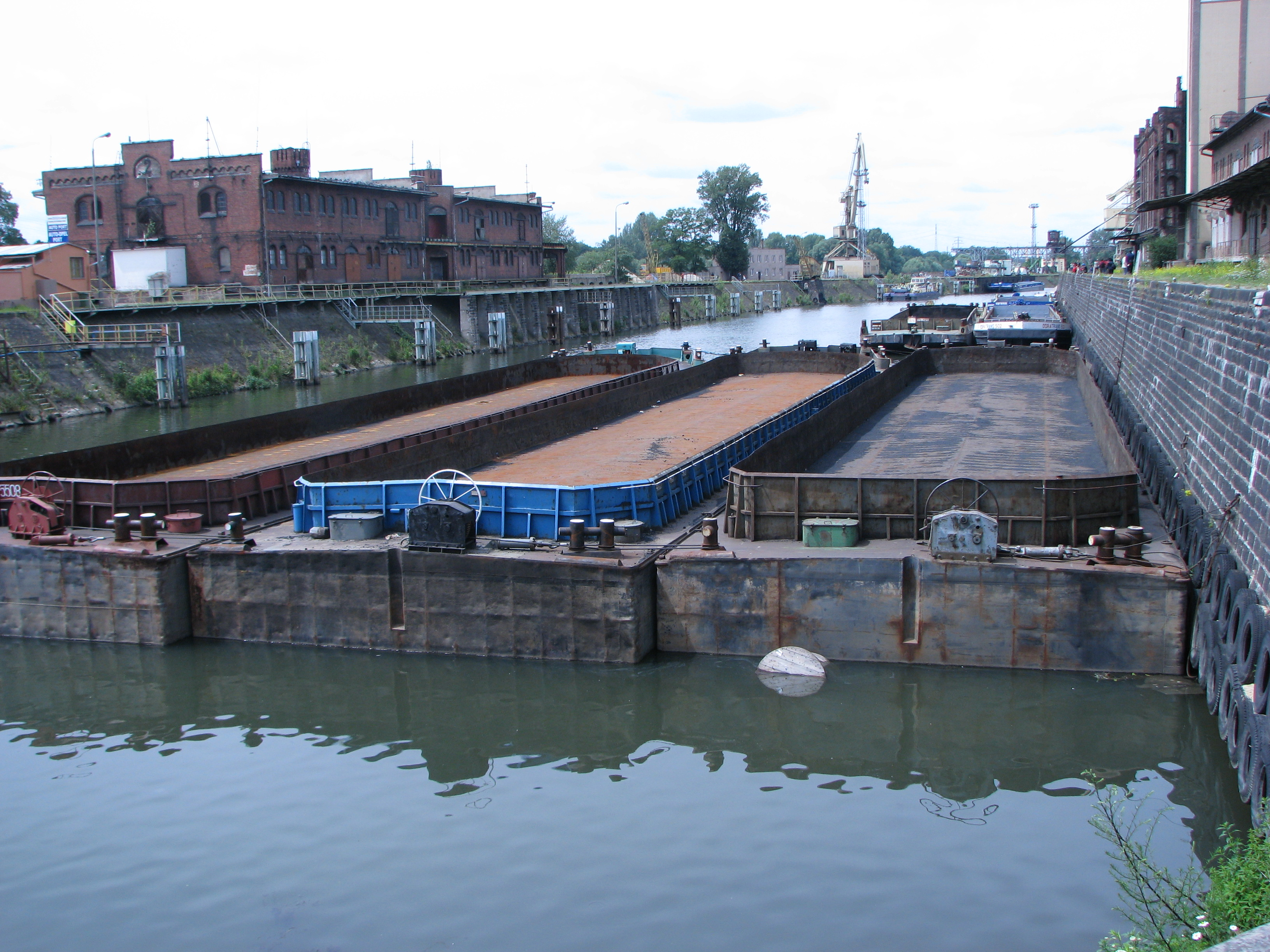 Photo made during the Photo Day 4.0 event in Wrocław